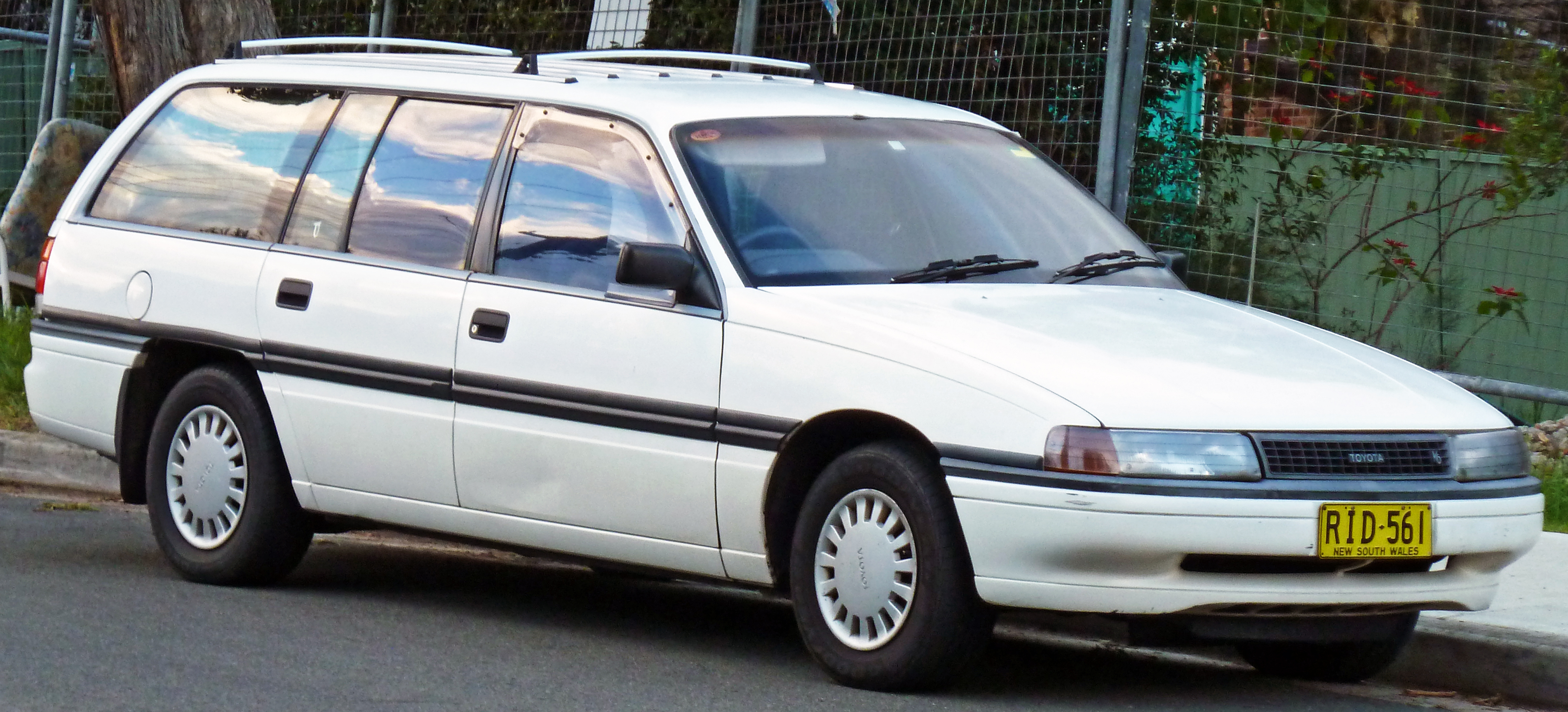 1989 Toyota Lexcen (T1) GL station wagon. Photographed in Gymea, New South Wales, Australia.